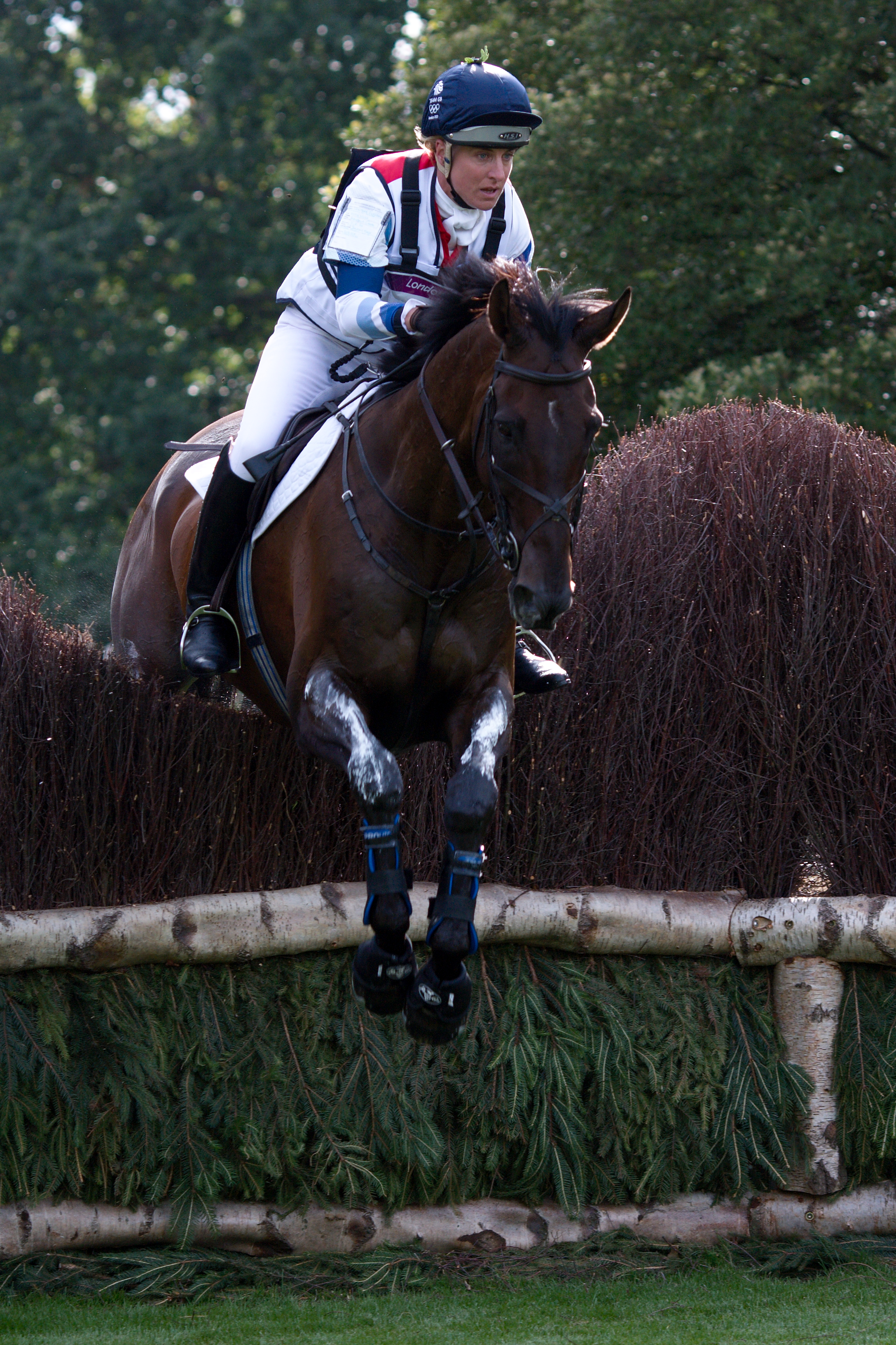 Tina Cook and Miners Frolic, competing for GBR, at fence 9, during the cross-country phase of the Eventing during the 2012 Olympic Games in Greenwich Park, London.